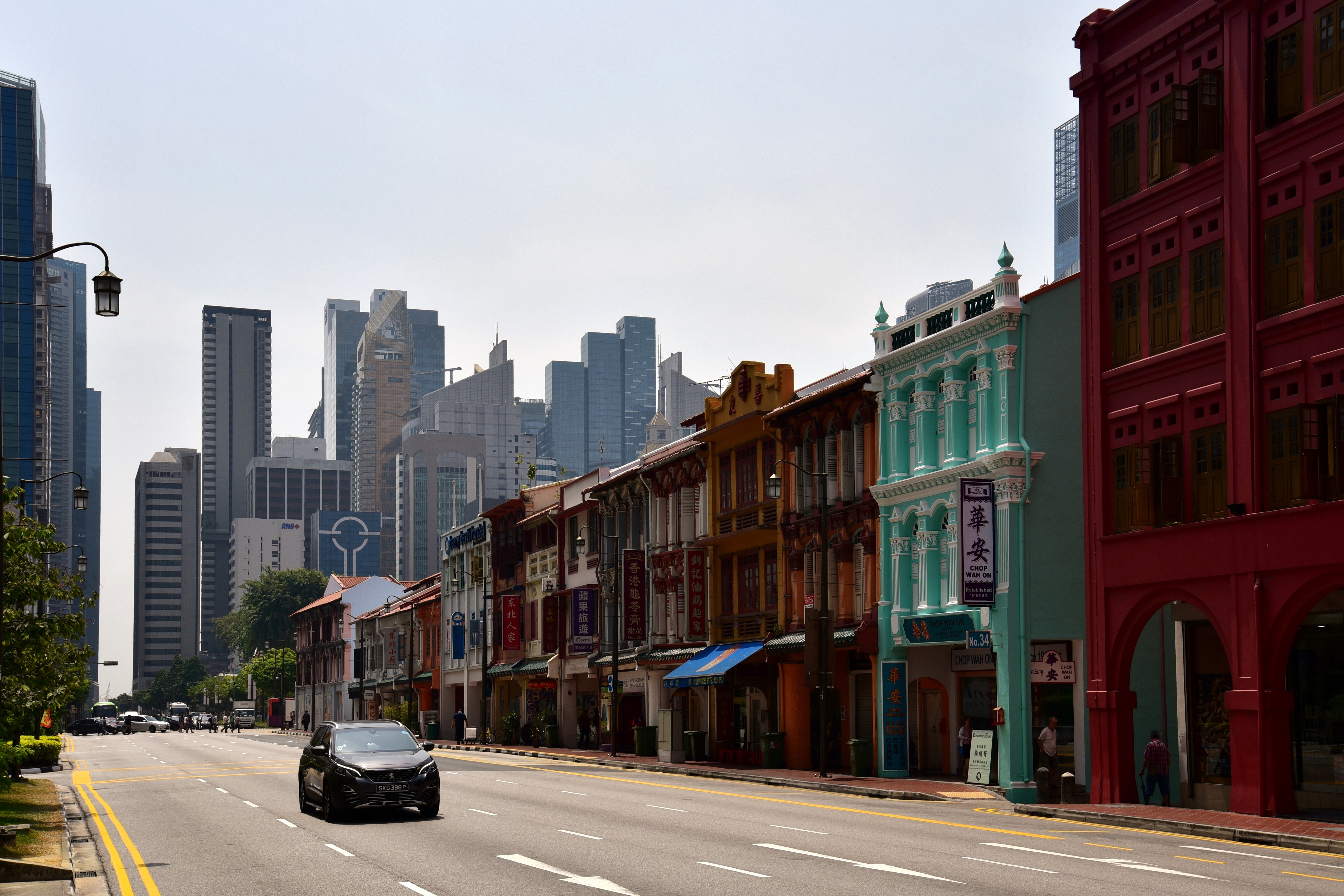 View of Upper Cross Street, Singapore